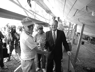 Melbourne Smith is congratulated by Mayor Tullio of Erie, PA for the construction in progress of the US Brig Niagara.